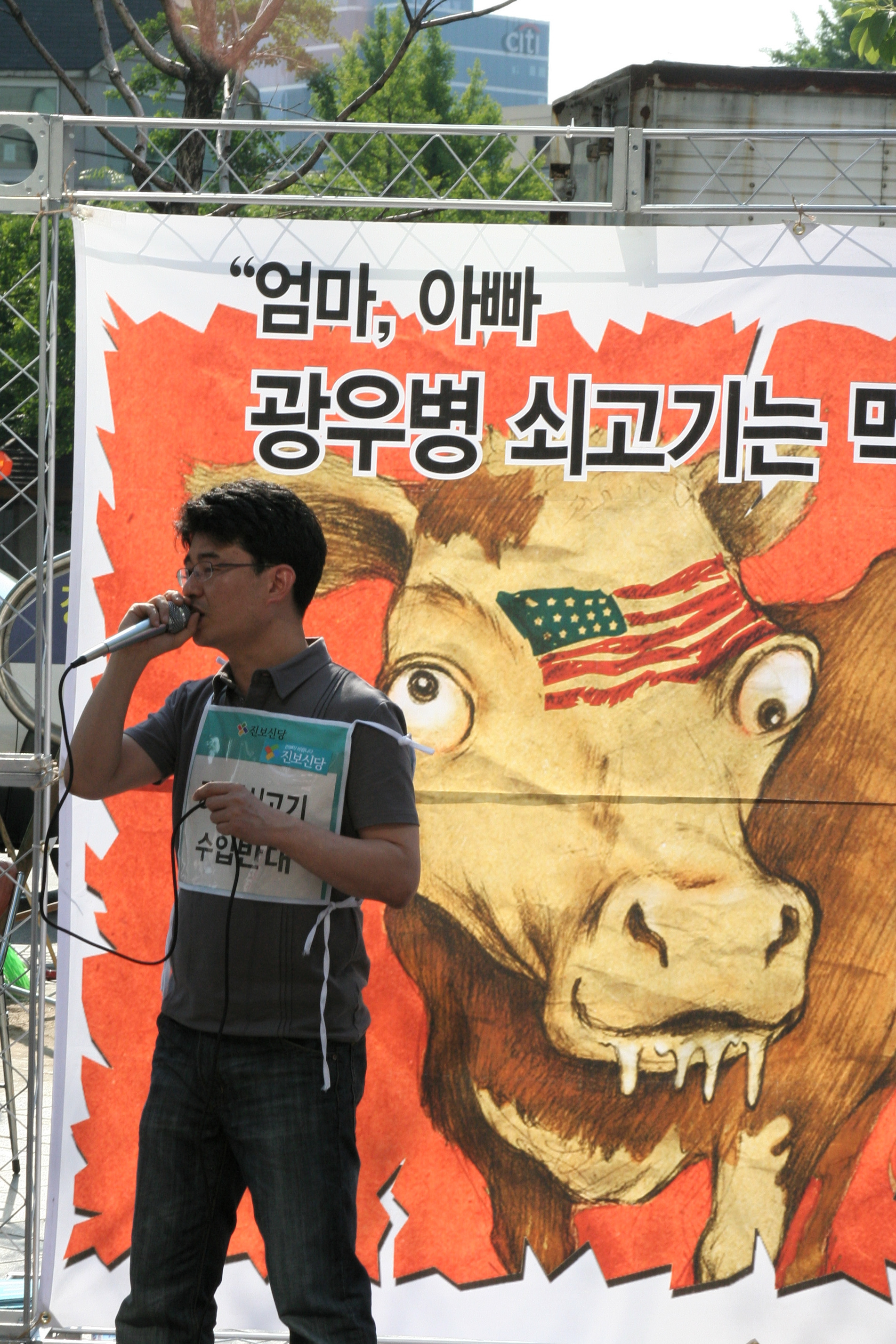 ROK Protest Against US Beef Agreement (US beef imports in South Korea, "Recently there have been lots of protests about the Korea-US FTA. Koreans are concerned about BSE in American beef...."